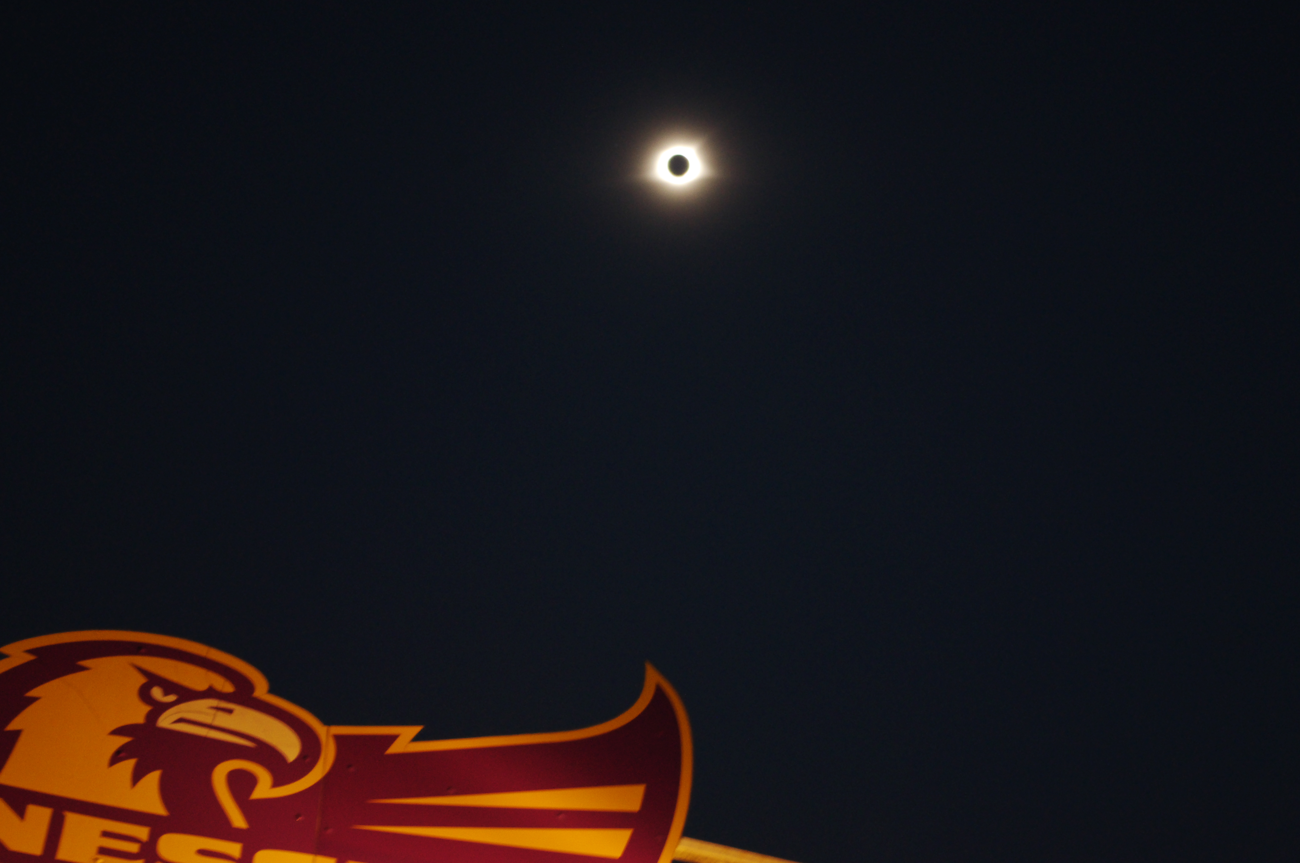 Solar eclipse totality with surrounding corona at Tennessee Technological University in Cookeville, Tennessee, United States; the TTU scoreboard logo is at the lower left.